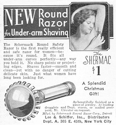 Advertisement for women's shaving razor 1933